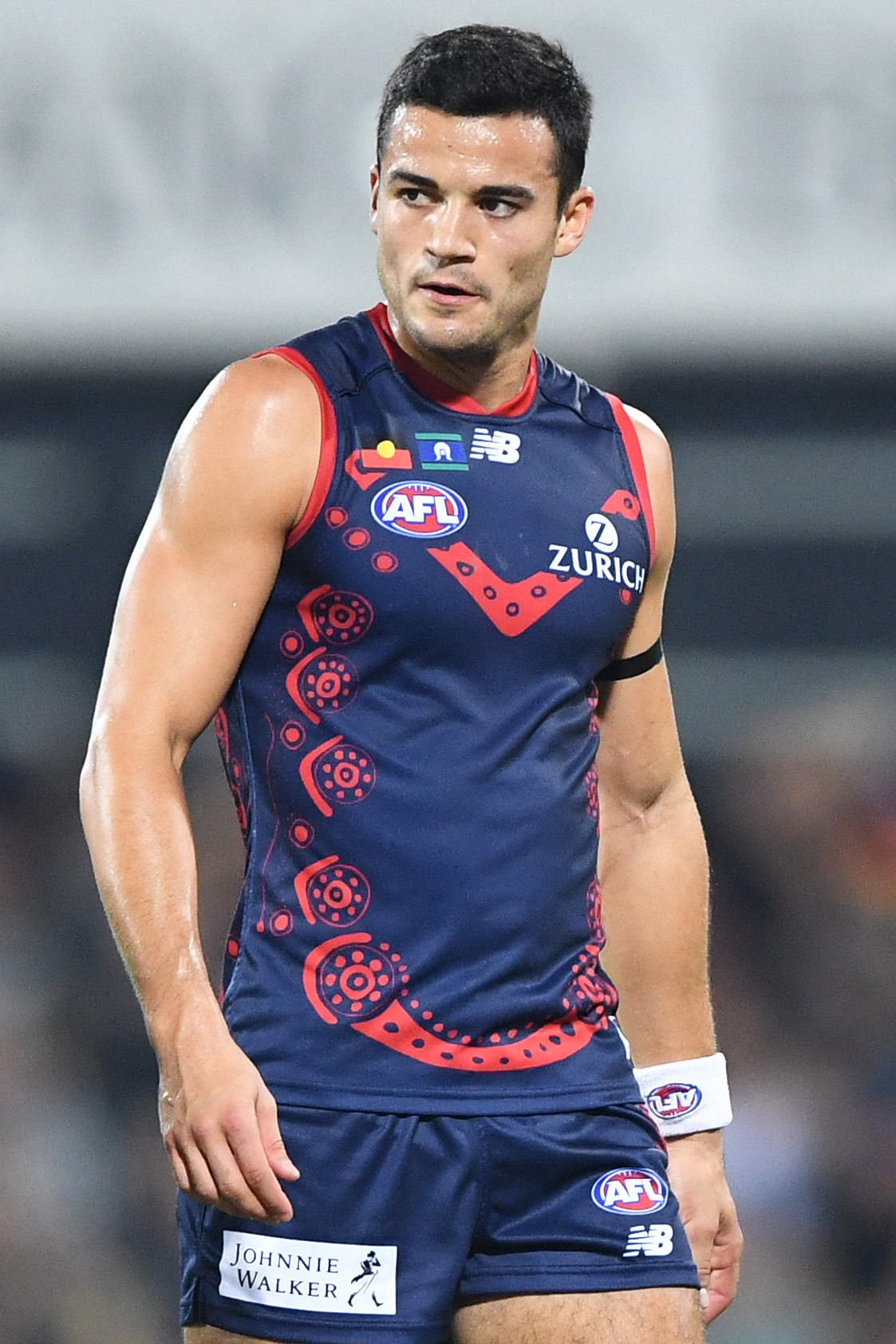 Billy Stretch of Melbourne during the 2019 AFL round 11 match between Melbourne and Adelaide at TIO Stadium on Saturday, 1 June 2019 in Darwin, Northern Territory.